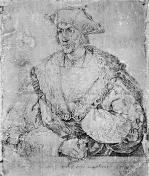 Henry Parker, Lord Morley, father of Jane Boleyn née Parker